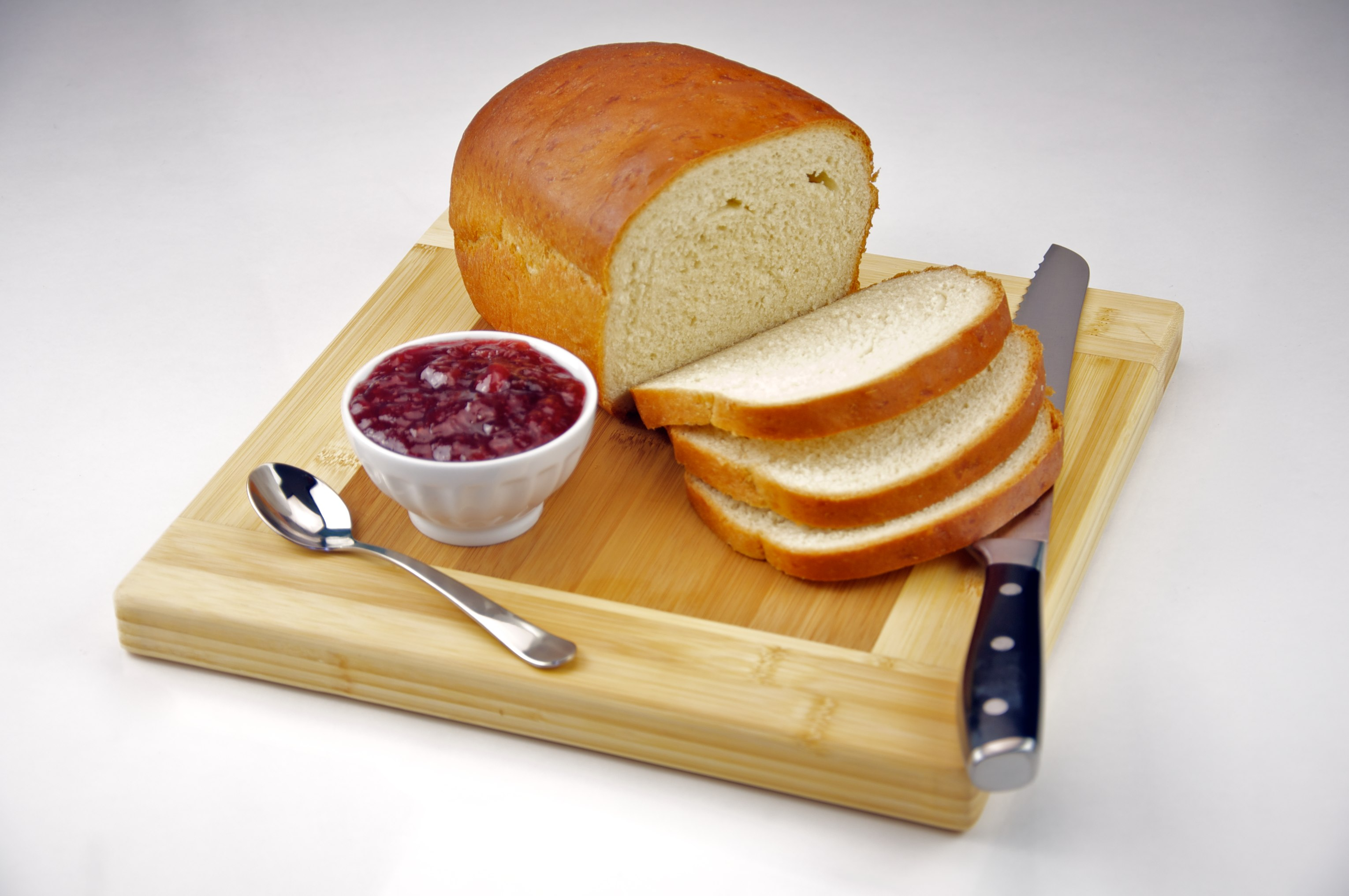 Homemade White Bread with Strawberry Jam.